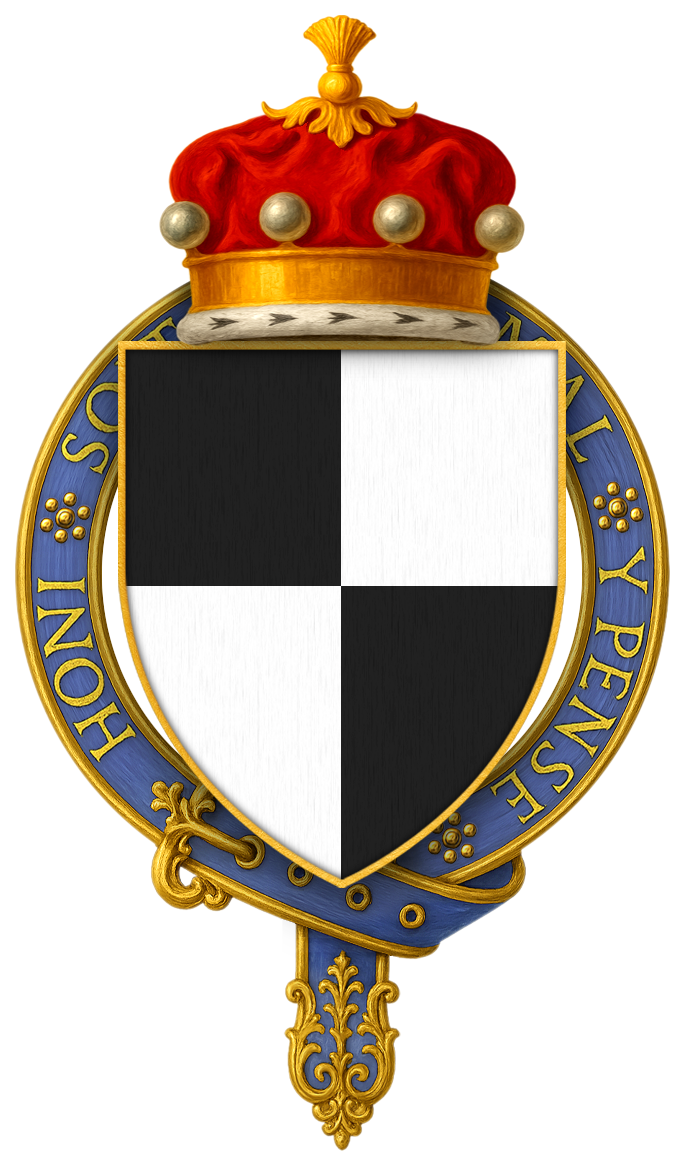 Sir Thomas Hoo, 1st Baron Hoo and Hastings, KG FOSTER, Joseph, Some Feudal Coats of Arms from Heraldic Rolls 1298-1418, London: James Parker & Co., 1902. “ Hoo, Thomas and William de - (E. II. Roll) bore, quarterly argent and sable (F.); Jenyns' and Surrey Rolls. To Mounsyer Hoo (Sir Thomas) the revers are ascribed at the siege of Rouen 1418; borne also by Thomas, Lord Hoo and Hastings, K.G. 1445; K. 402 fo. 27. ”